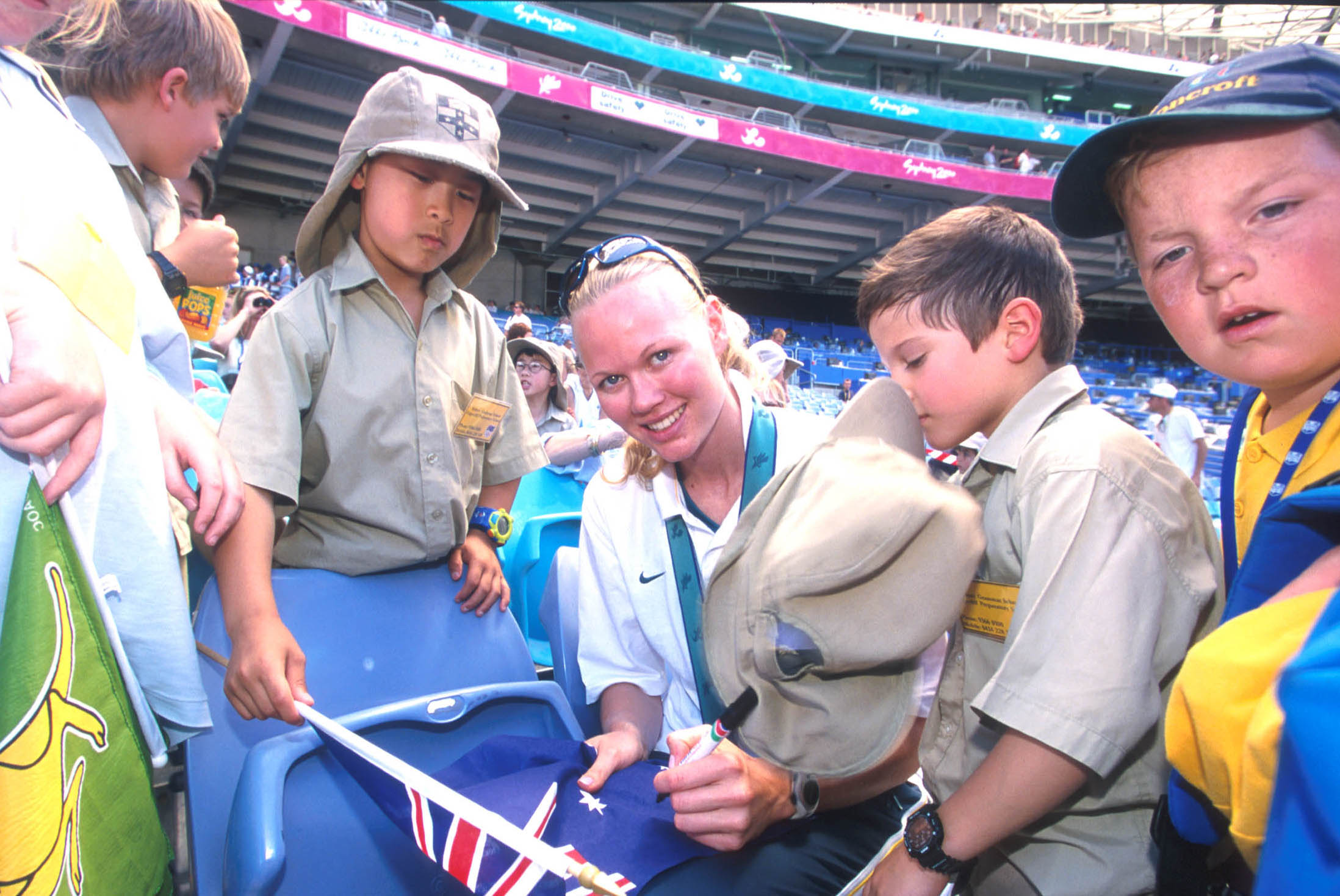 Australian track athlete Katrina Webb autographs an Australian flag for kids at the 2000 Sydney Paralympic Games